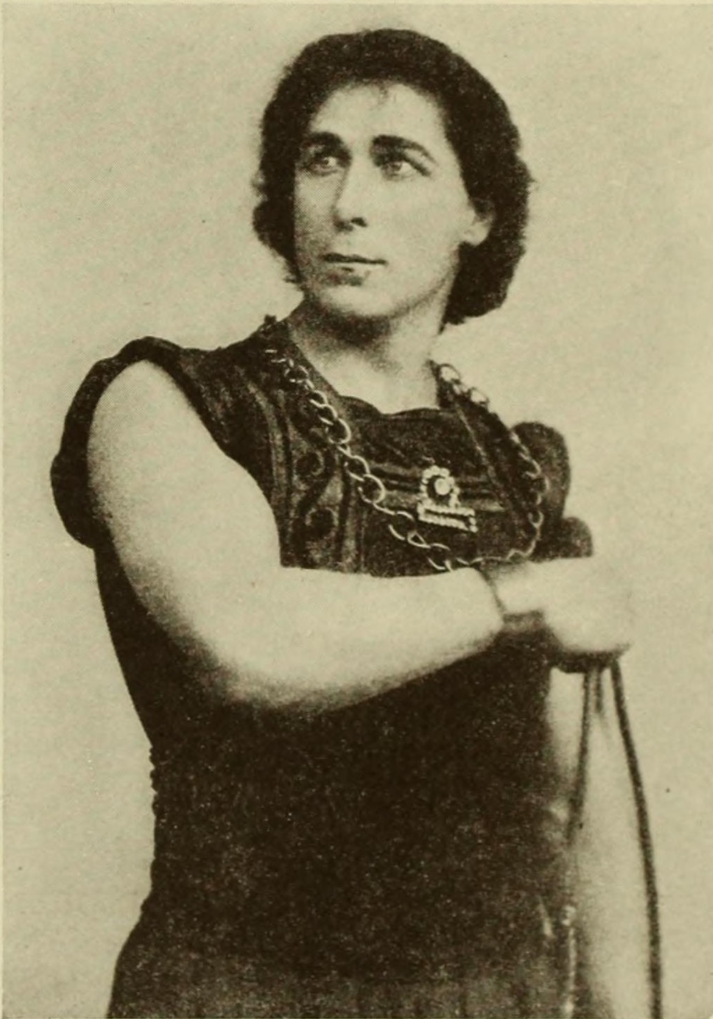 William S. Hart as Messala published on page 47 of the April 1921 issue of Photoplay magazine. There is no indication on the cited page, including in the image's caption, that this depiction relates in any way directly to Kalem Company's 1907 film. Hart's casting in that production remains unverified and suspect, and this image more likely dates from and relates to his performances (194 of them) in the highly successful 1899-1900 Broadway production of Ben Hur. This image is one of several illustrates "Shakespeare is His Middle Name", an article in the cited 1921 reference that focuses on Hart's early stage career. Its caption does not refer to any film; it simply states, "It's hard to believe, but Bill really looked like this when he played Messala in Ben Hur." [Again, it is very likely this photograph of Hart in costume is associated with his work in the 1899-1900 Broadway production.